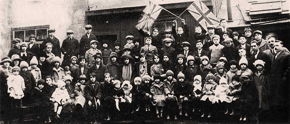 A Bulgarian school, funded by the Bulgarian Orthodox community, was founded in Toronto as early as 1914: this was also the first Bulgarian school in the Americas. In 1924, this school had 70 pupils and two teachers..